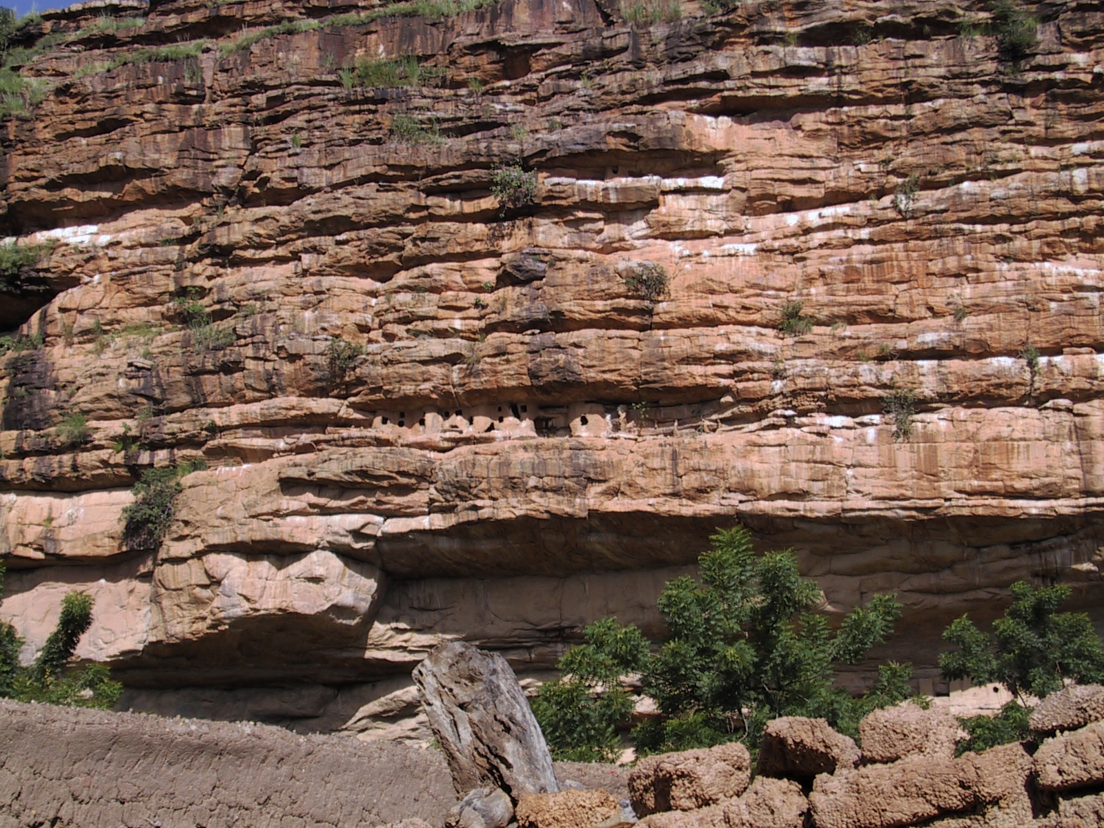 Tellem Cliff dwellings inside the Bandiagara escarpment — in the Sahel region of Mali.